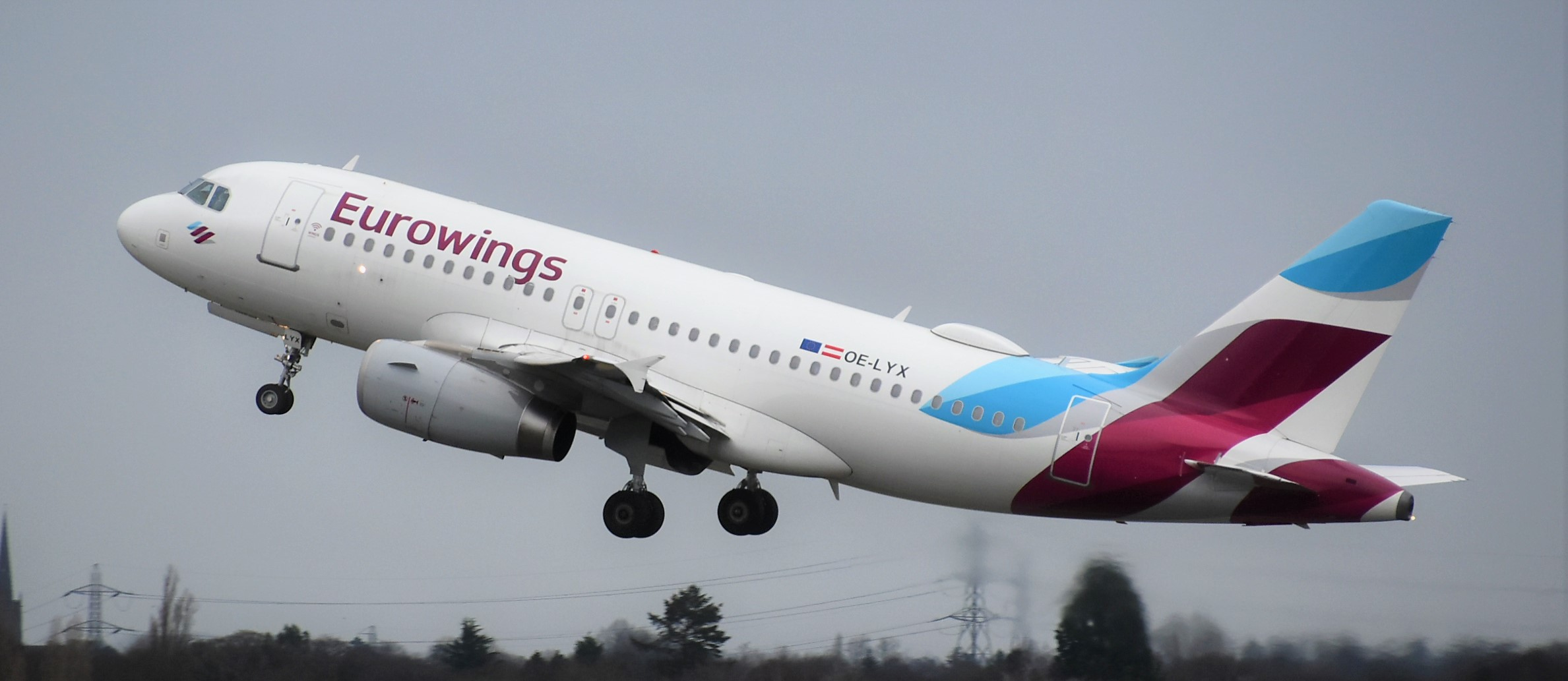 Airbus A319 of Eurowings Austria departing rwy.33 at Birmingham-BHX,13/01/19.